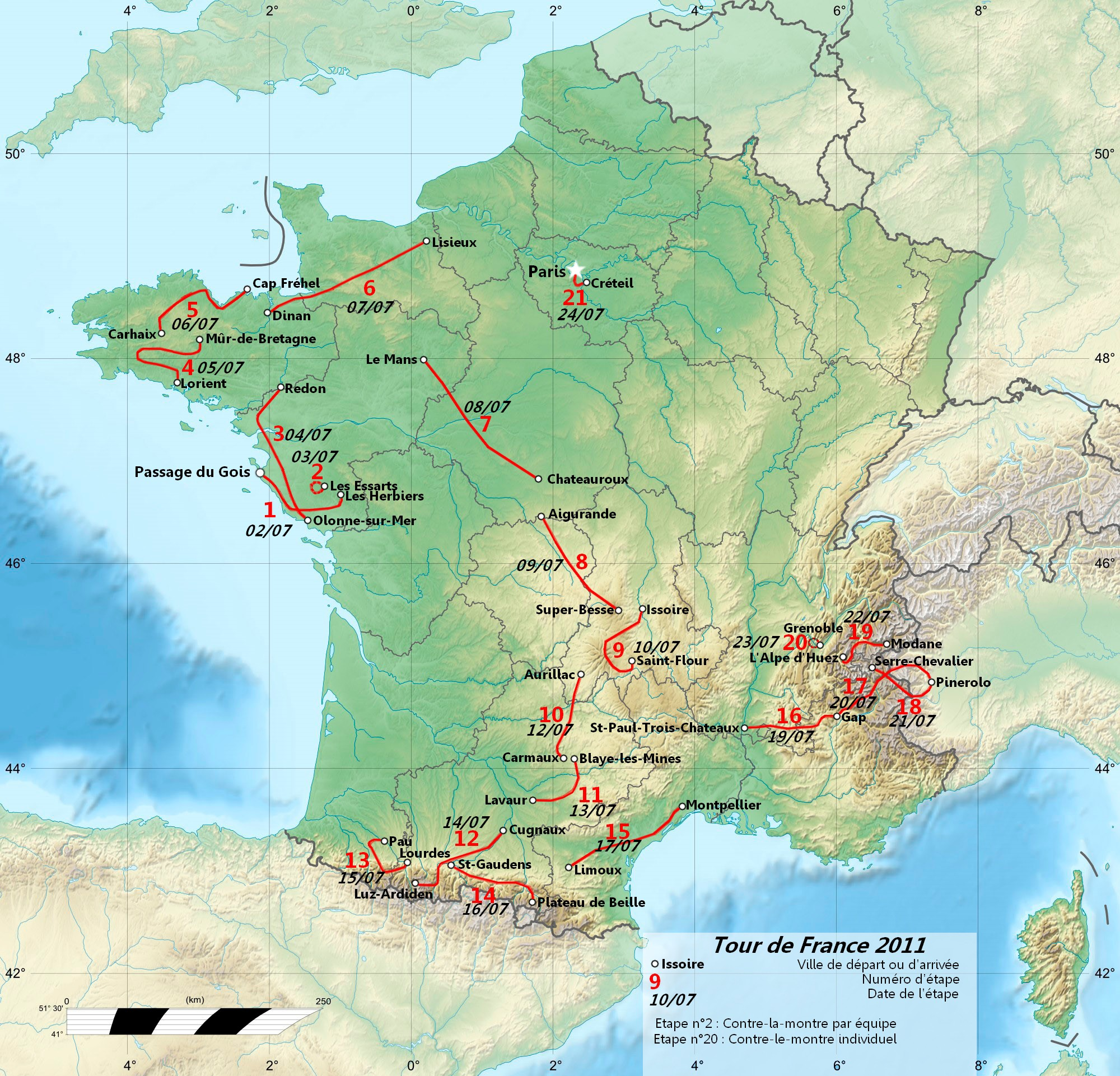 Blueprint of the Tour de France 2011